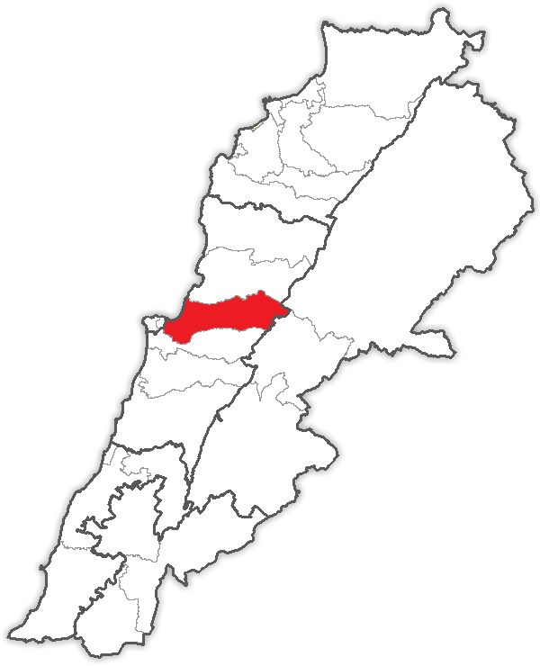 electoral district (2017 Election Law)